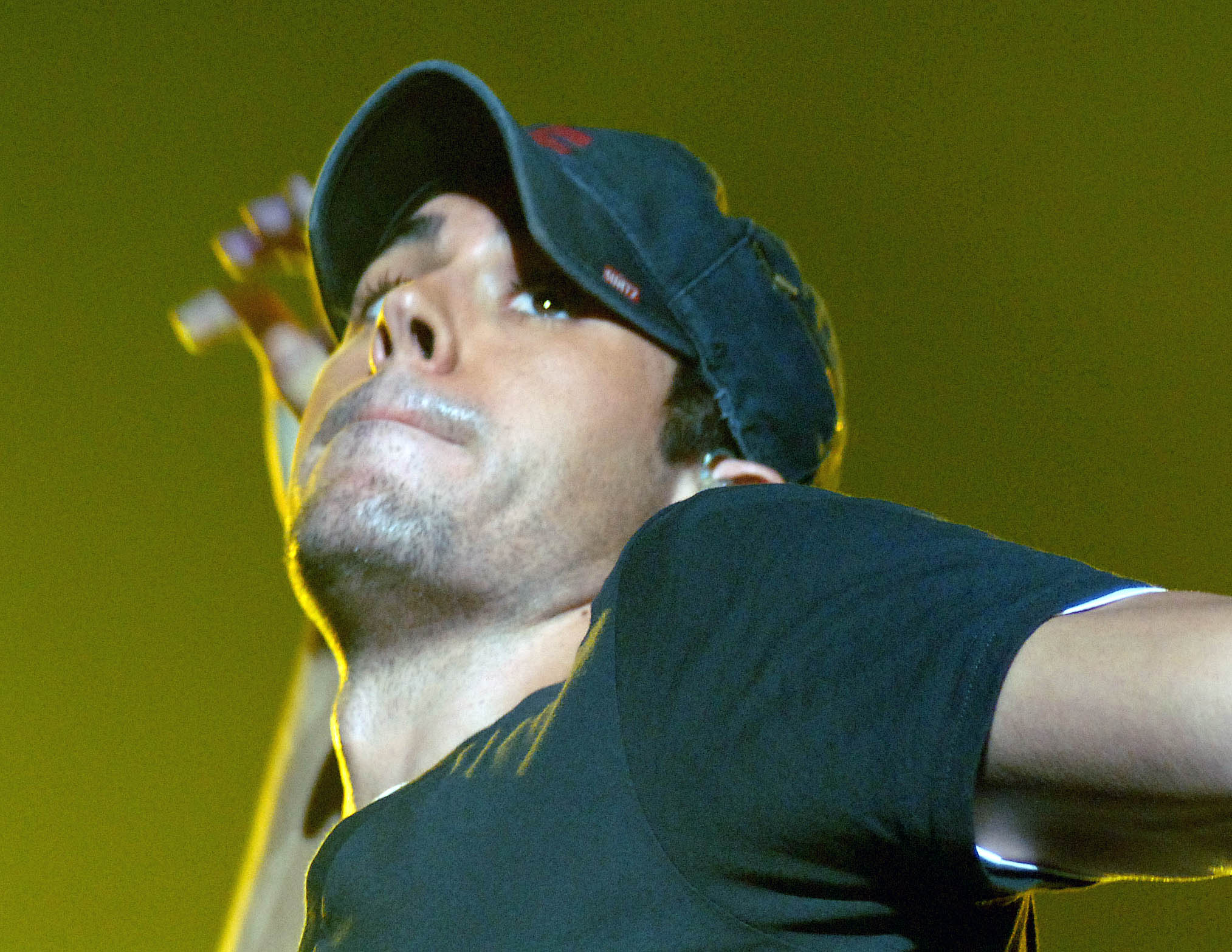 Enrique Iglesias, Vilnius, Lithuania 2007.11.29